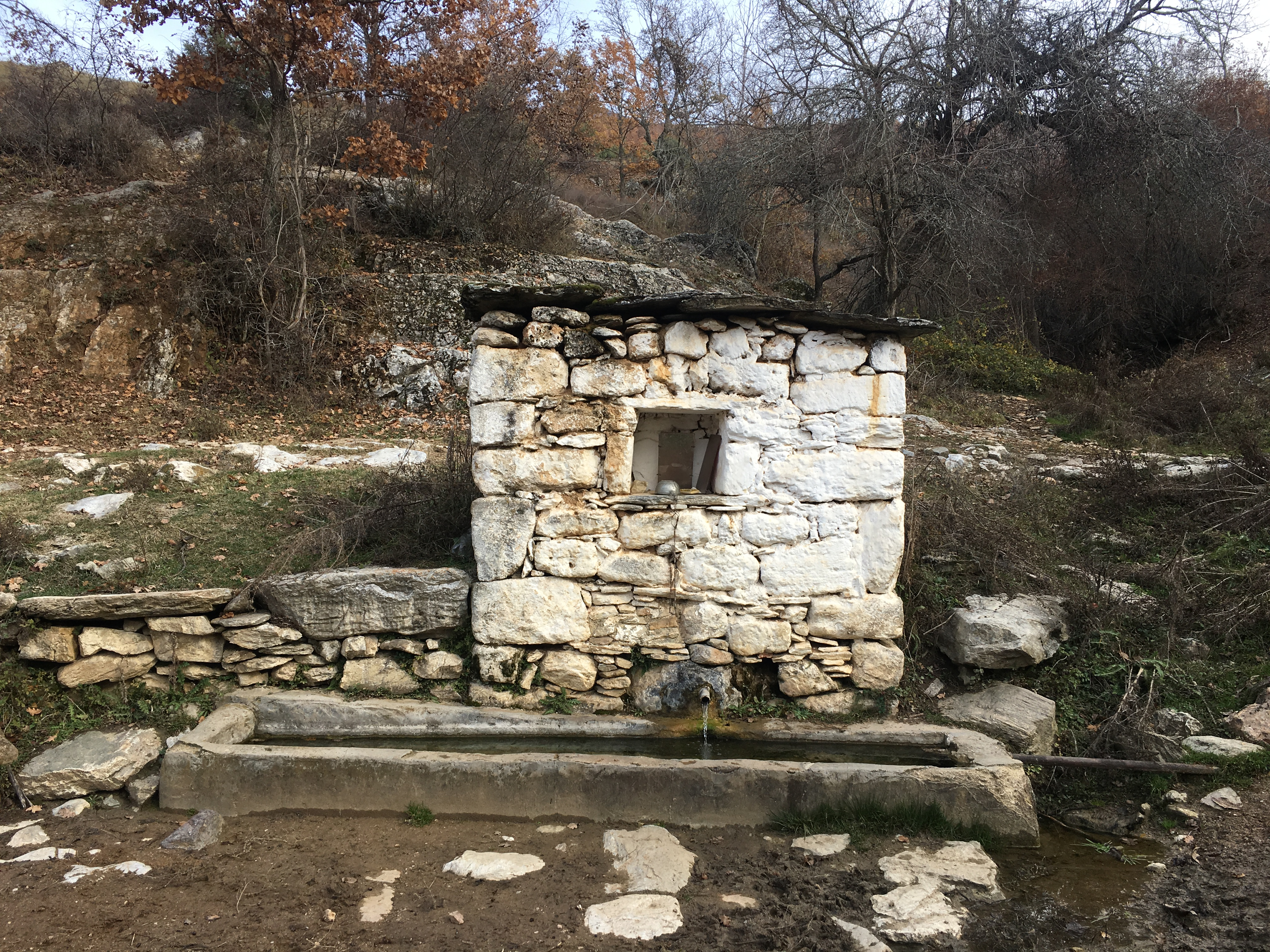 Village pump in Mal Radobil